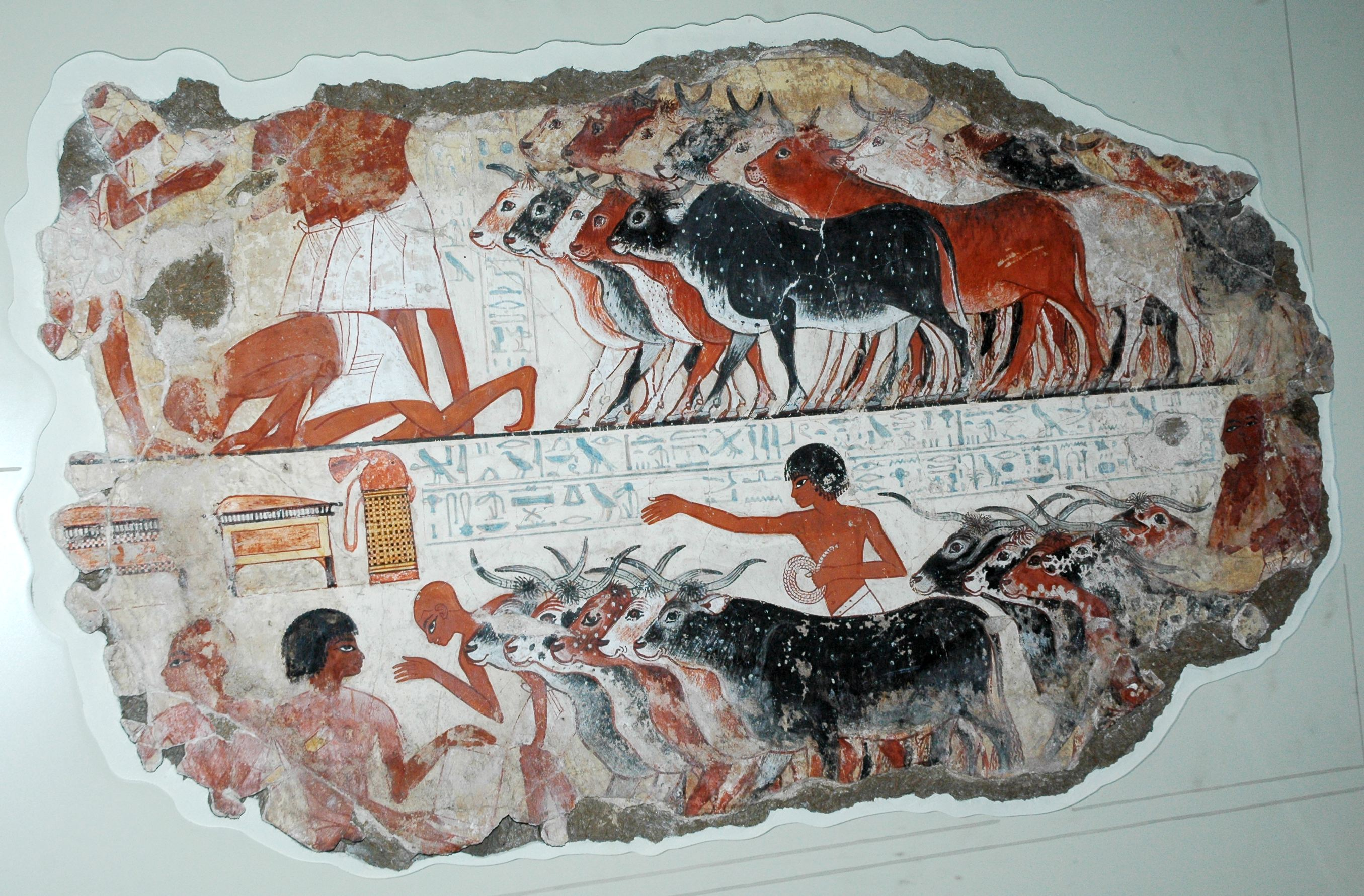 scene from the lost tomb-chapel of Nebamun, exposed in the British Museum, scene showing the presentation of cattle to Nebamun, Inv.: BM EA 37976